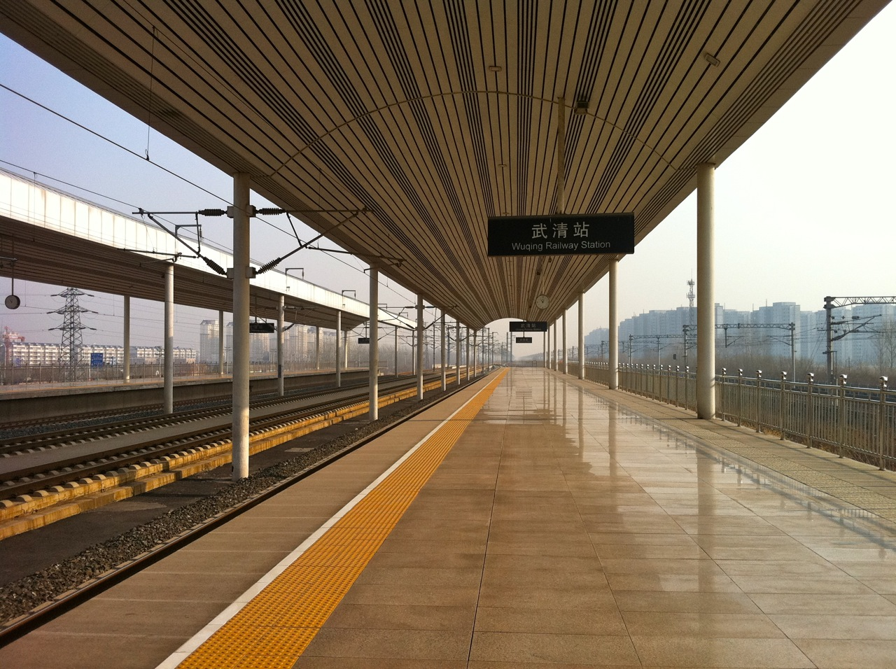 Platform 2, Wuqing Railway Station